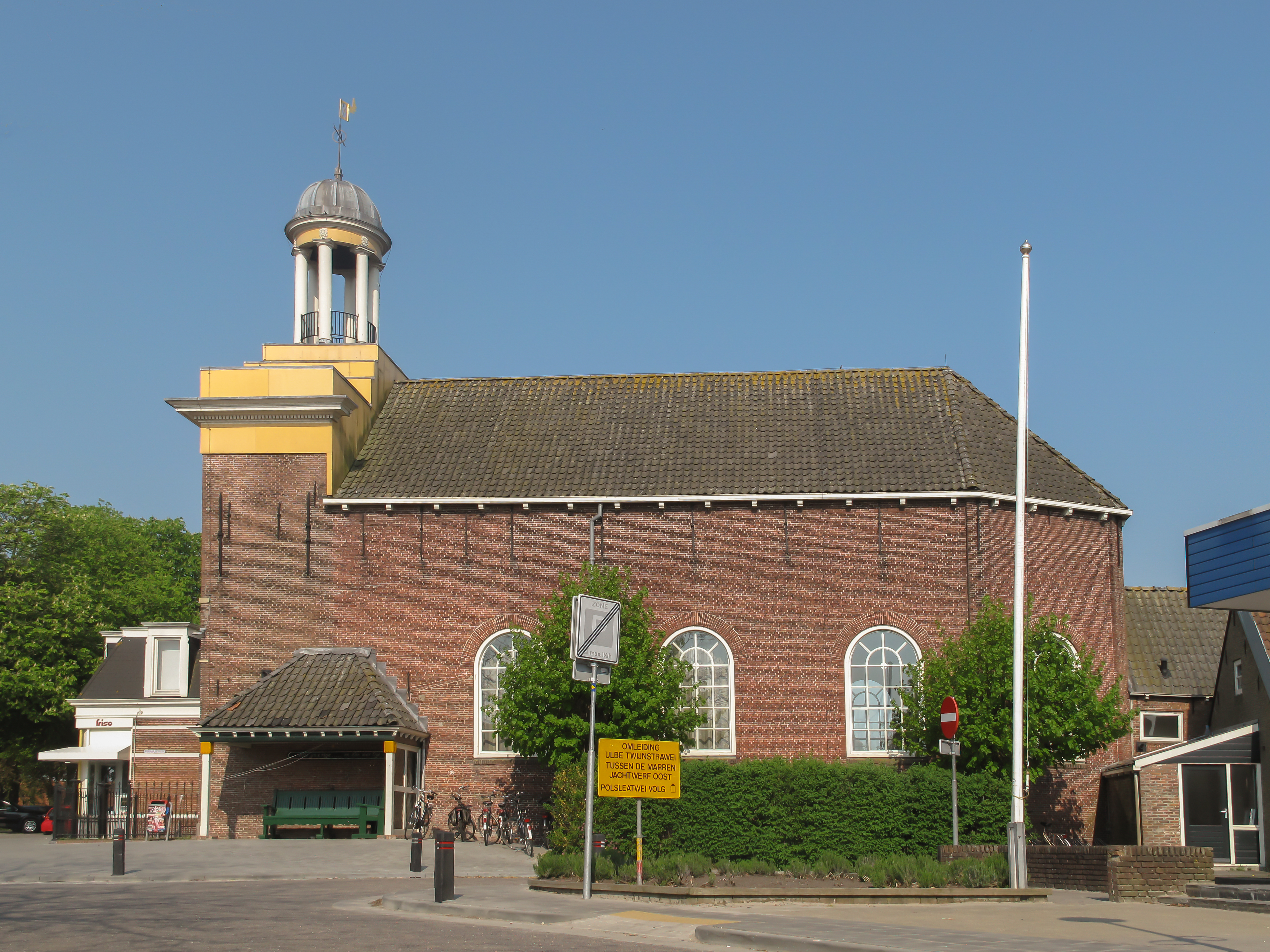 Akkrum, the Mennonite Church